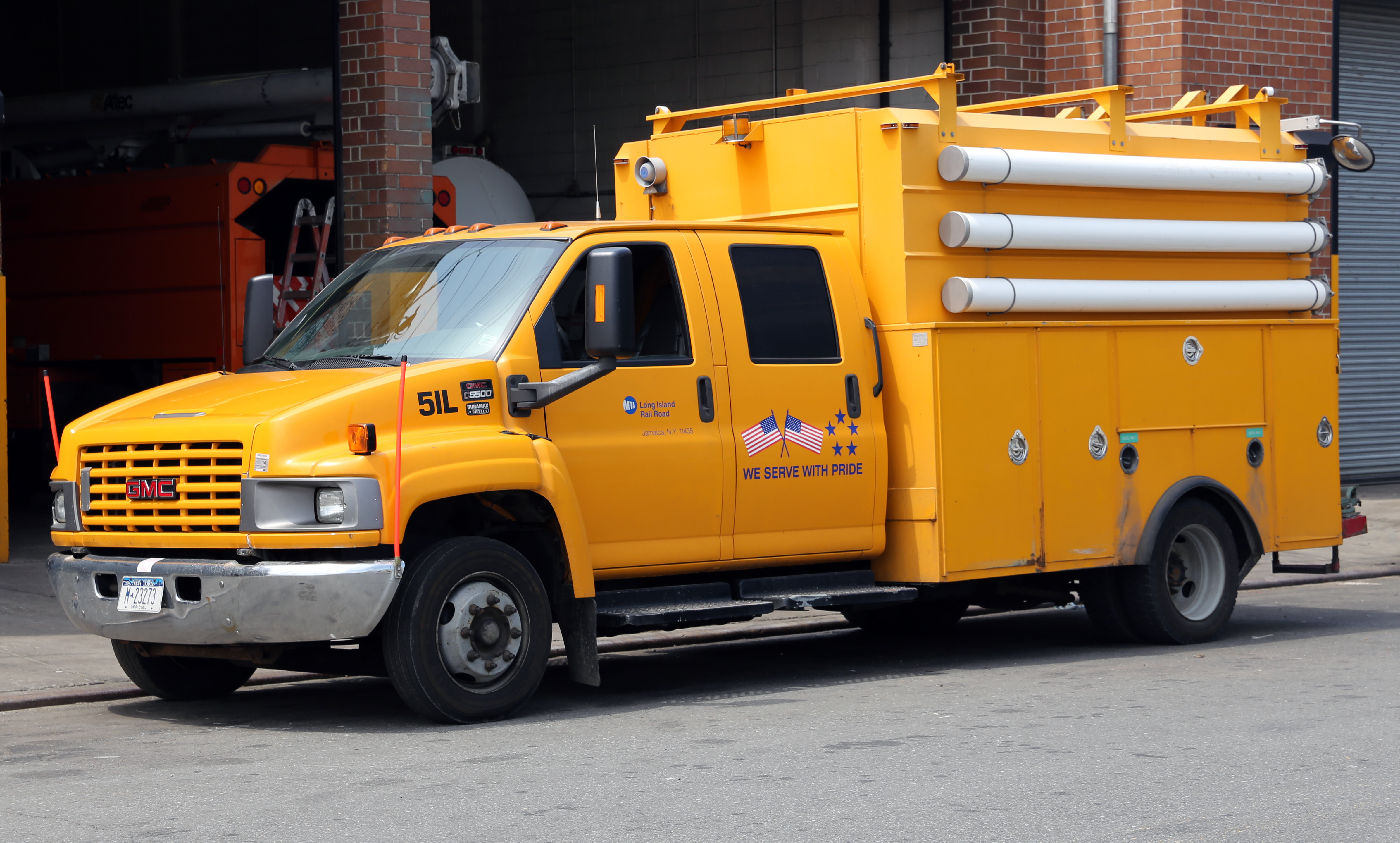 A GMC C5500 diesel crew cab belonging to the LIRR.